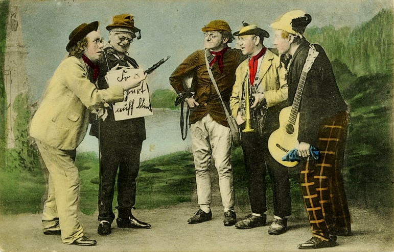 Comedy group Stanzl-Schwarz